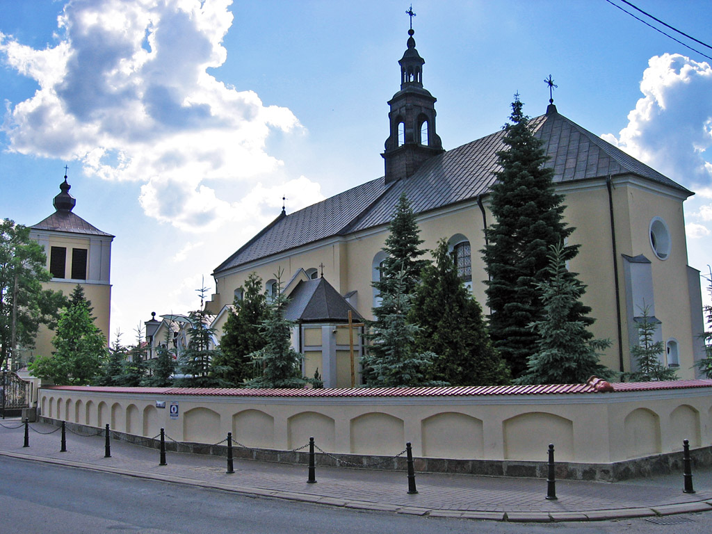 City of Ostroleka (Poland), Church at Farna.